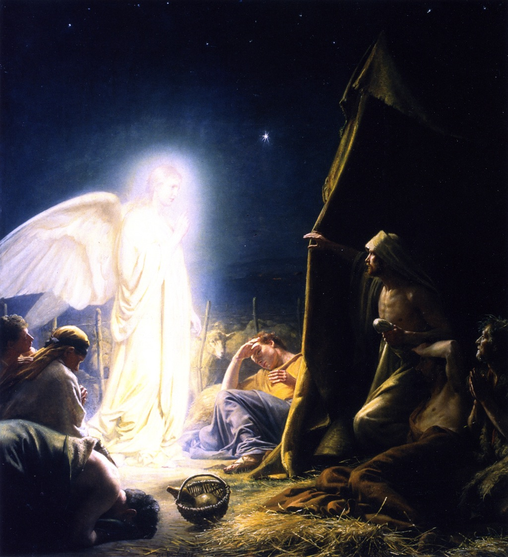 Painting "The Sheperds and the angel" (1879) by Carl Bloch. Oil on copper